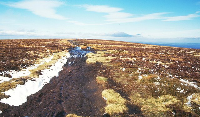 Black Mountain (hill). The roof of the South.